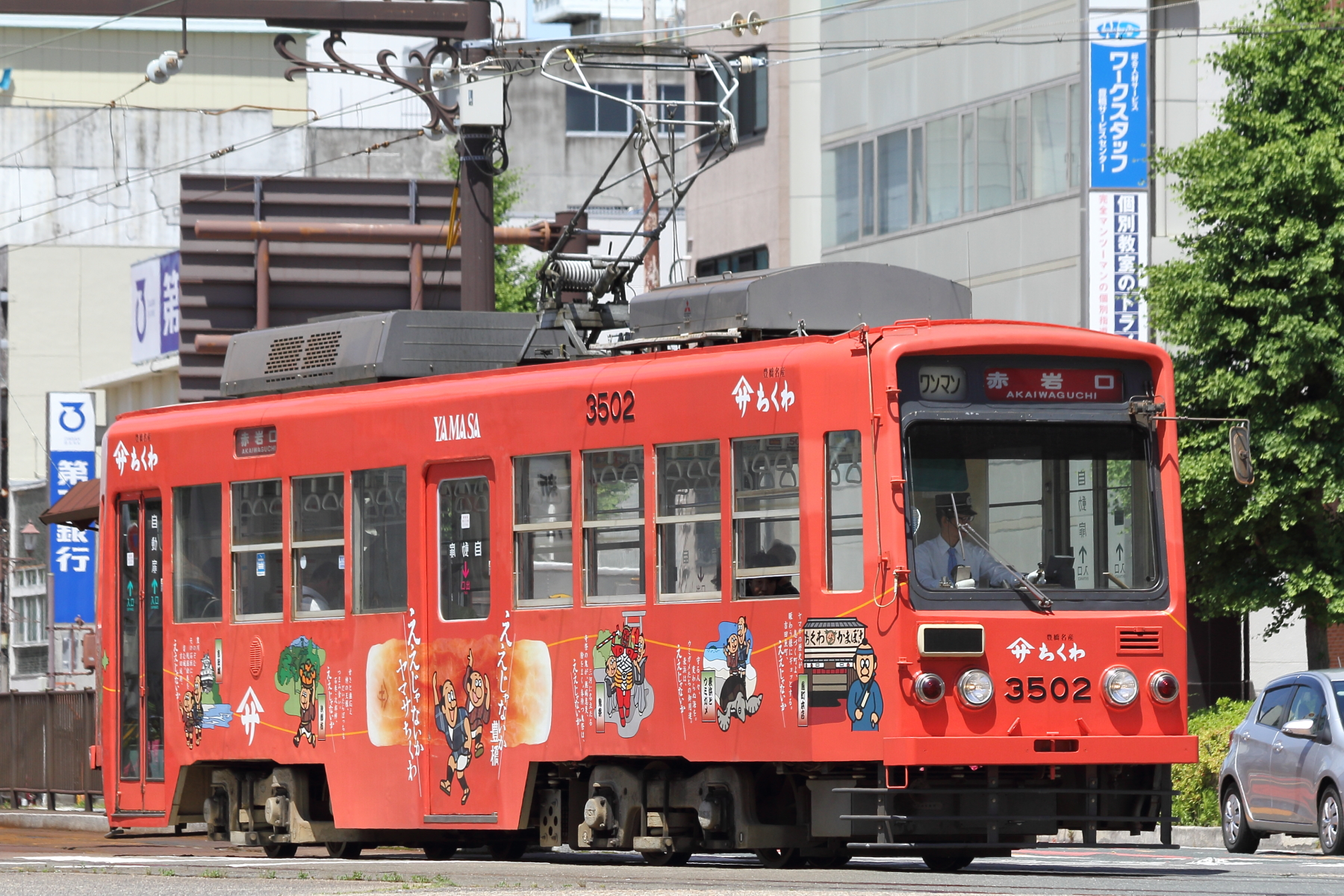 Toyohashi Railroad No.3502